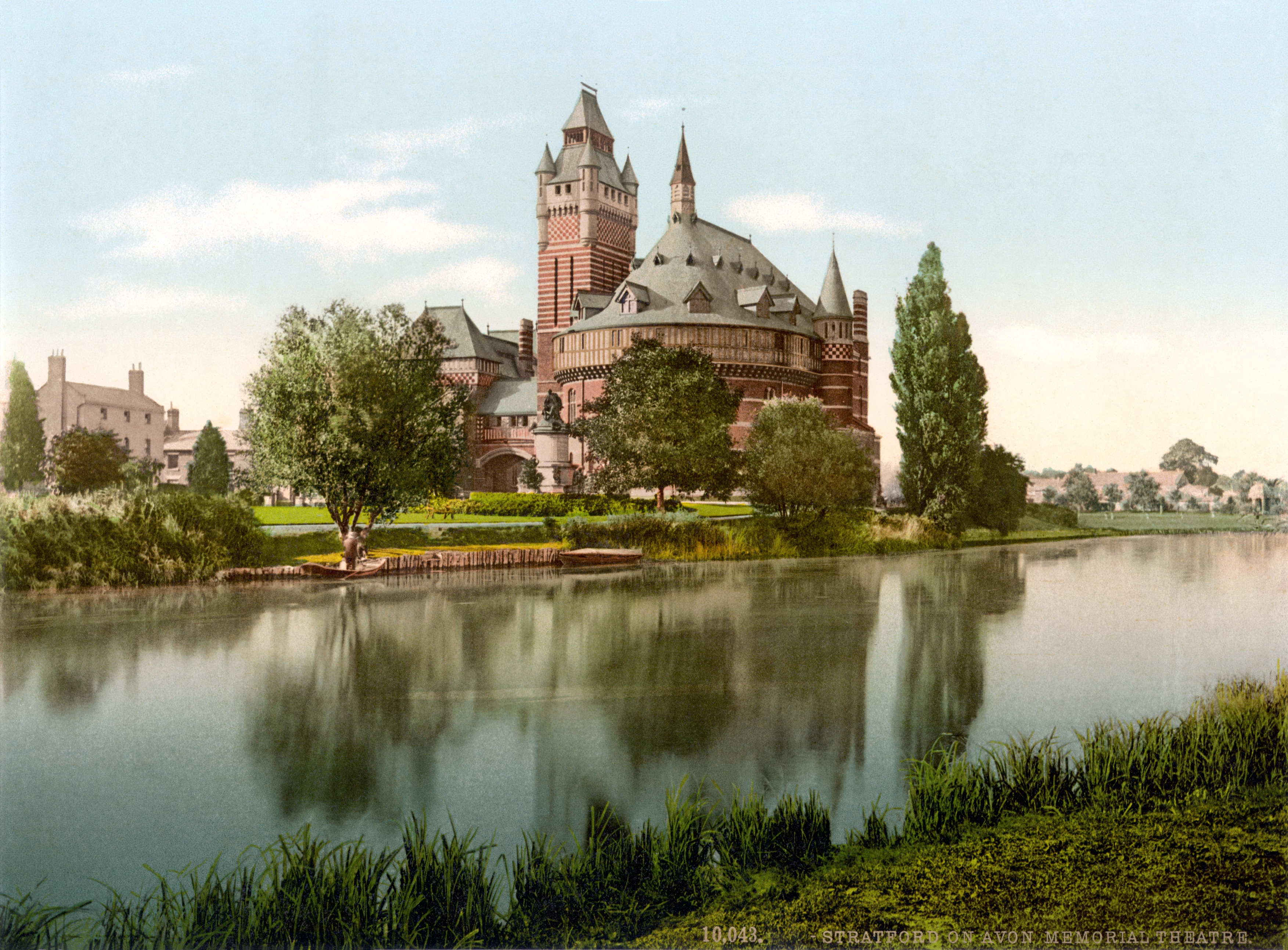 Detroit Publishing Company photochrom of Shakespeare's Memorial Theatre, which burned down in 1926. For the record, "Shakespeare's Memorial Theatre" is the name given in the Library of Congress' description, taken from Detroit Publishing Co., Catalogue J foreign section, Detroit, Mich. : Detroit Publishing Company, 1905. The photochrom itself calls it just the "Stratford on Avon Memorial Theatre", and "Shakespeare Memorial Theatre" appears to be the most common usage. This is a retouched picture, which means that it has been digitally altered from its original version. Modifications: Dirt, dust, cracks, and spotting edited out; the LoC use uncalibrated scanners, so levels were adjusted to try and make the image as natural as possible..